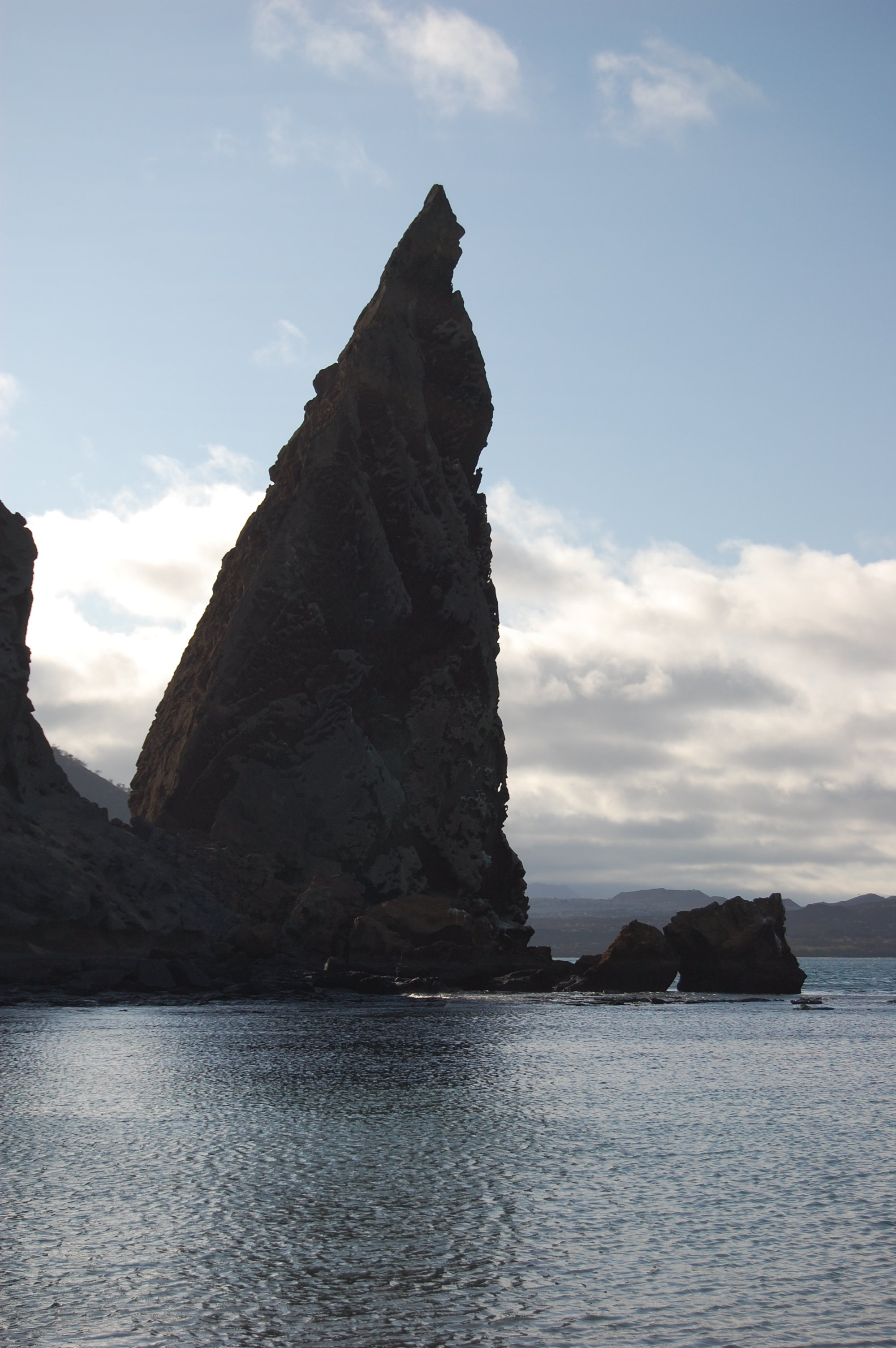 Pinnacle rock at Bartoleme Island [1]